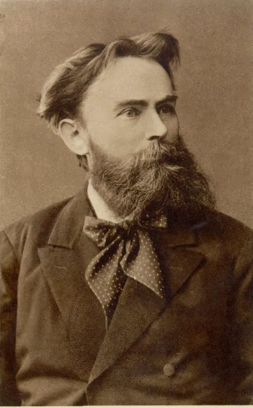 Josip Stritar (1836-1923), Slovene writer and poet.